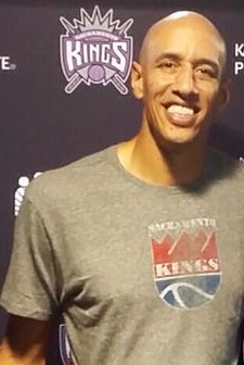 Doug Christie of Sacramento Kings fame